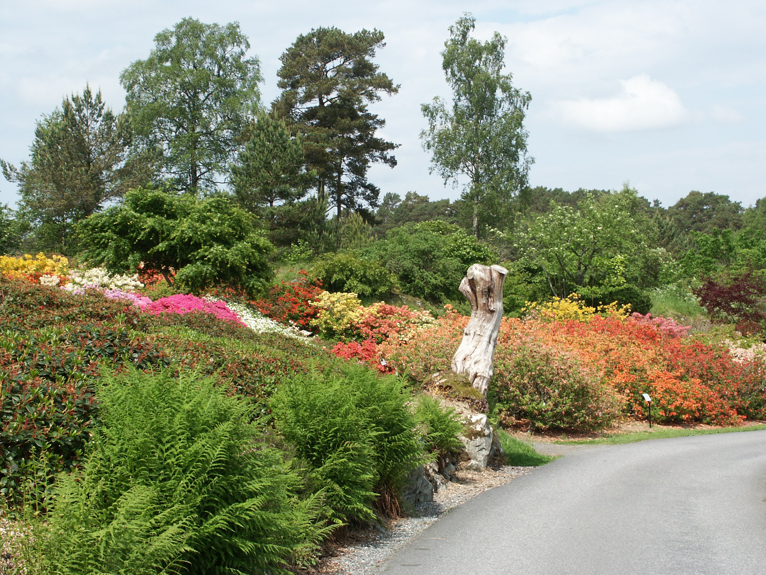 Arboretum, Milde, Bergen, Hordaland, Norway